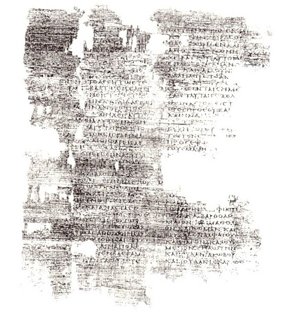 page of the codex with text of Luke 6:4-16